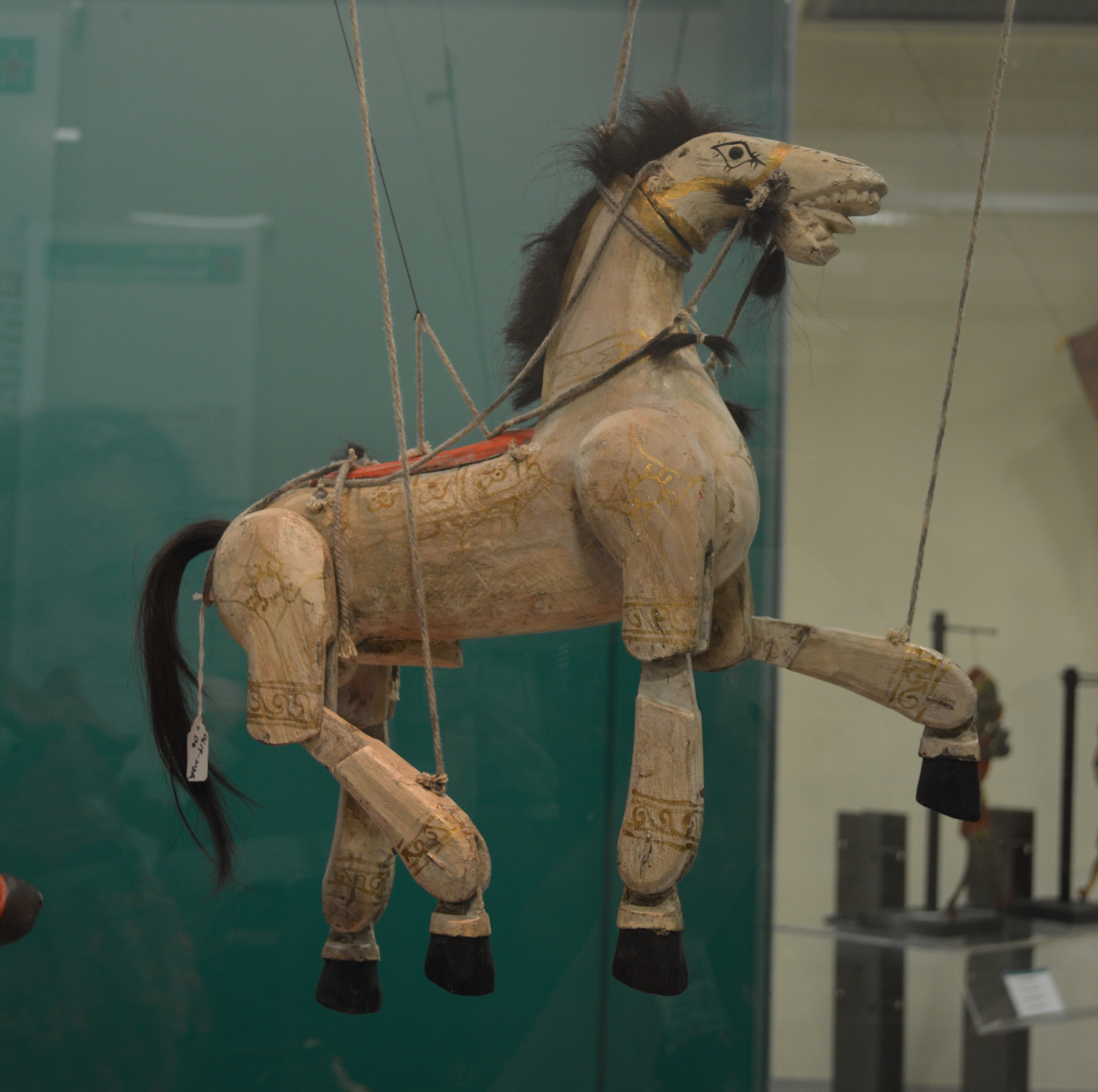 Horse marionette from Myanmar by unknown craftsman at the National Puppet Museum in Huamantla, Tlaxcala, Mexico